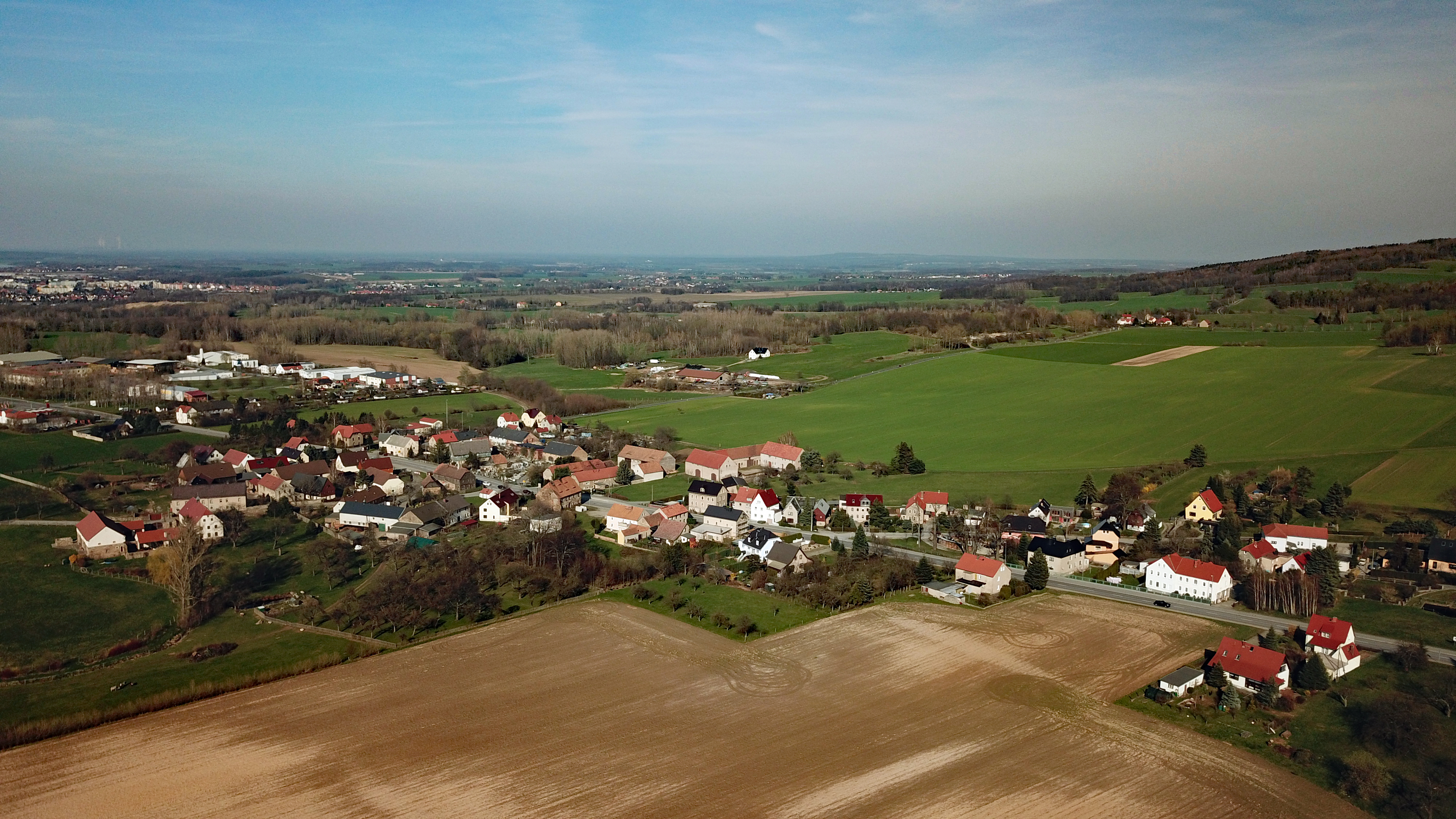 Ebendörfel (Großpostwitz, Saxony, Germany) Hornjoserbsce: Powětrowy wobraz Bělšec Dieses Foto wurde mit einem Quadcopter innerhalb der RMZ des Flugplatzes EDAB aufgenommen. Der Flugleiter wurde am Aufnahmetag telephonisch über Ort und Zeit informiert und hat zugestimmt. Der Flug erfolgte auf Grundlage der Allgemeinverfügung der Landesdirektion Sachsen zur Erteilung der Betriebserlaubnis für unbemannte Luftfahrtsysteme und Flugmodelle gemäß § 21a LuftVO und Zulassung von Ausnahmen von Betriebsverboten gemäß § 21b LuftVO für den Freistaat Sachsen.